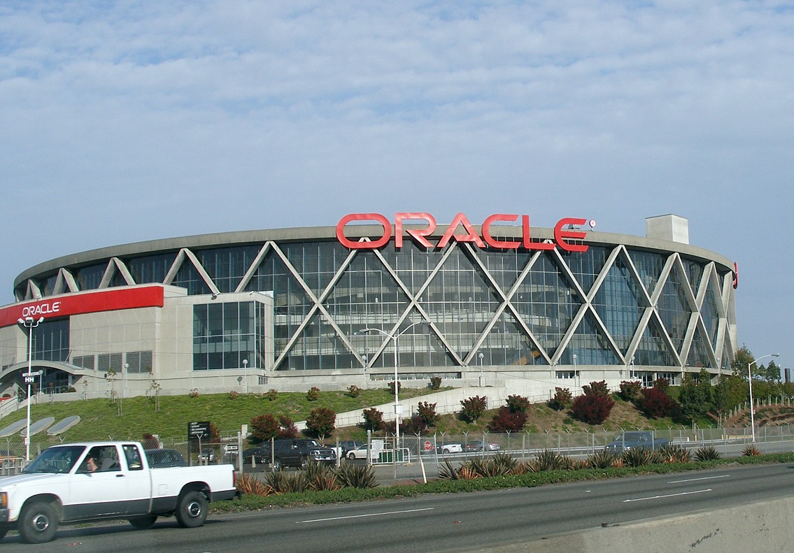 The Oracle Arena in Oakland, California, as seen from Interstate 880 (California) southbound. Photographed by user Coolcaesar on April 25, en:2007.